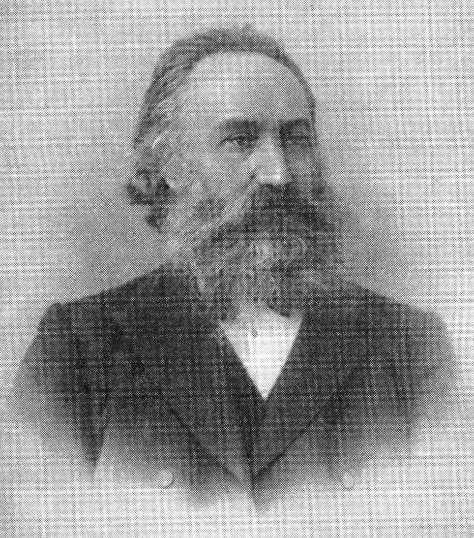 Photo of Evgraf Fedorov (d.1919).